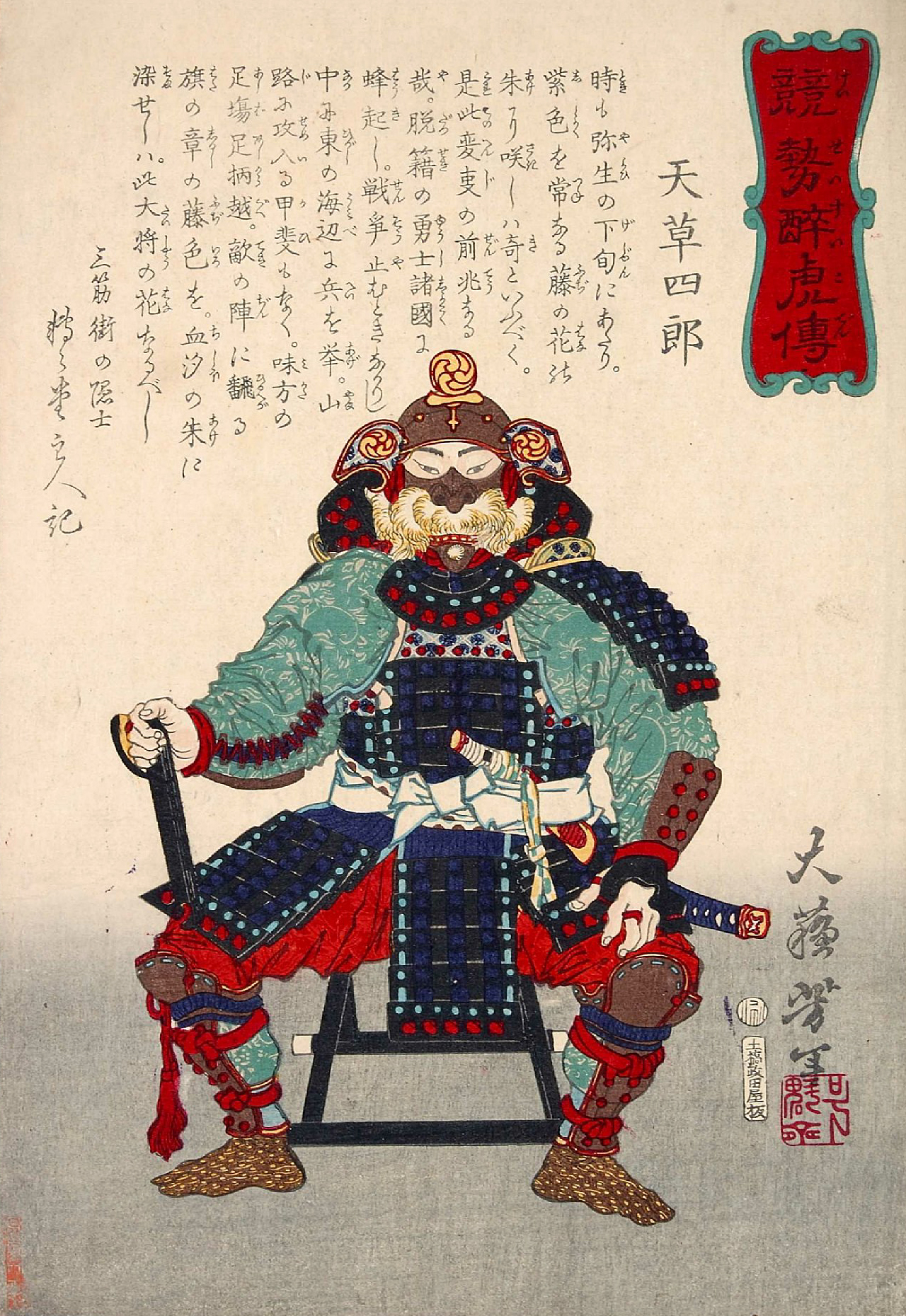 Amakusa Shirō, from the series Biographies of Valiant Drunken Tigers (Keisei suikoden / 竸勢醉虎傳), Woodblock print